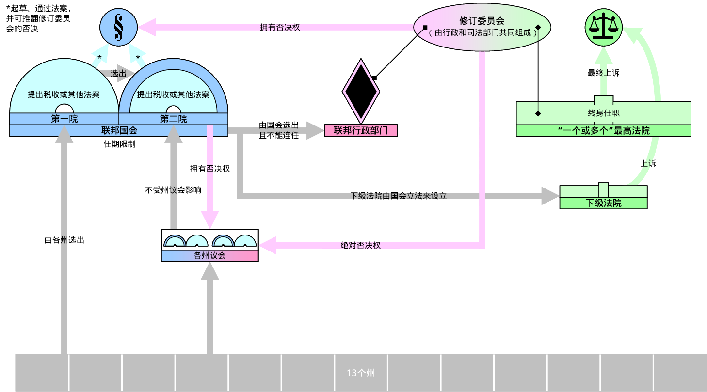 A diagram of the Virginia Plan presented at the Constitutional Convention in the United States in 1787.